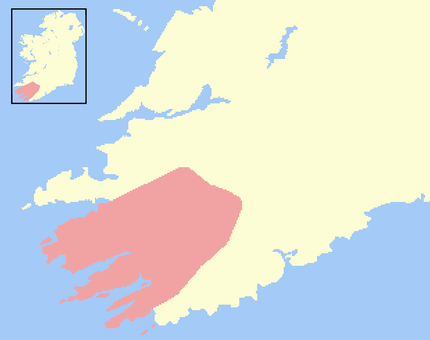 Rough map of the Kingdom of Desmond in the 1300s, borders had been reduced from earlier reign due to Normans.